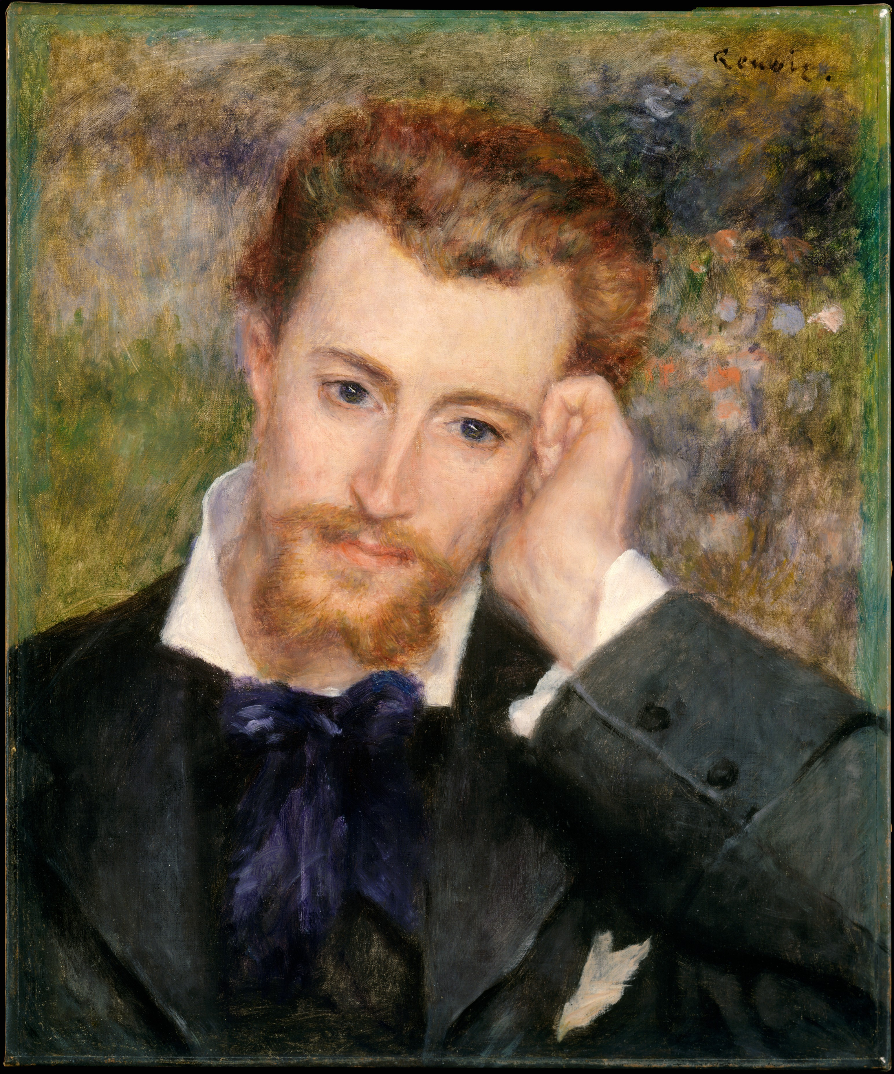 Eugène Murer (Hyacinthe-Eugène Meunier, 1841–1906)